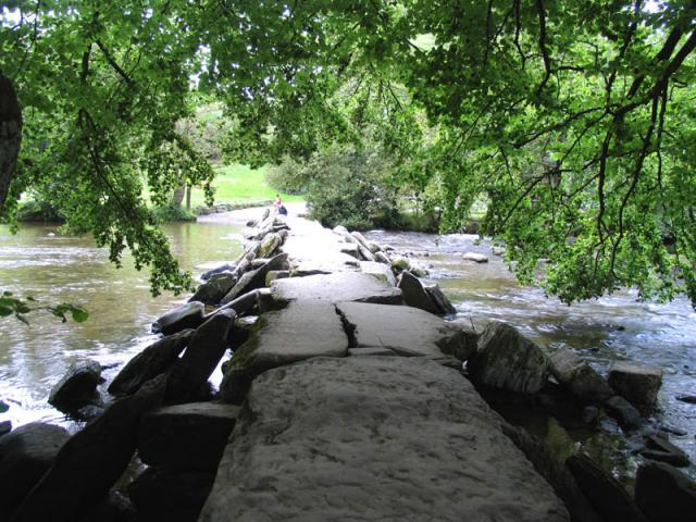 Tarr Steps. Taken from the Hawkshead side of the river, the Tarr Steps are situated in the far south east corner of the grid square